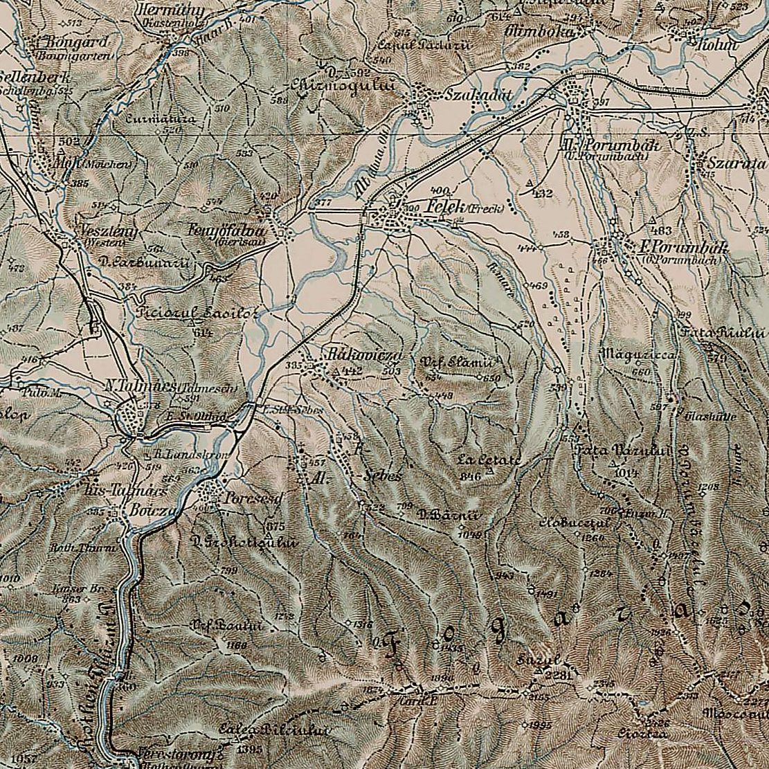 3rd Military Mapping Survey of Austria-Hungary - Nagyszeben